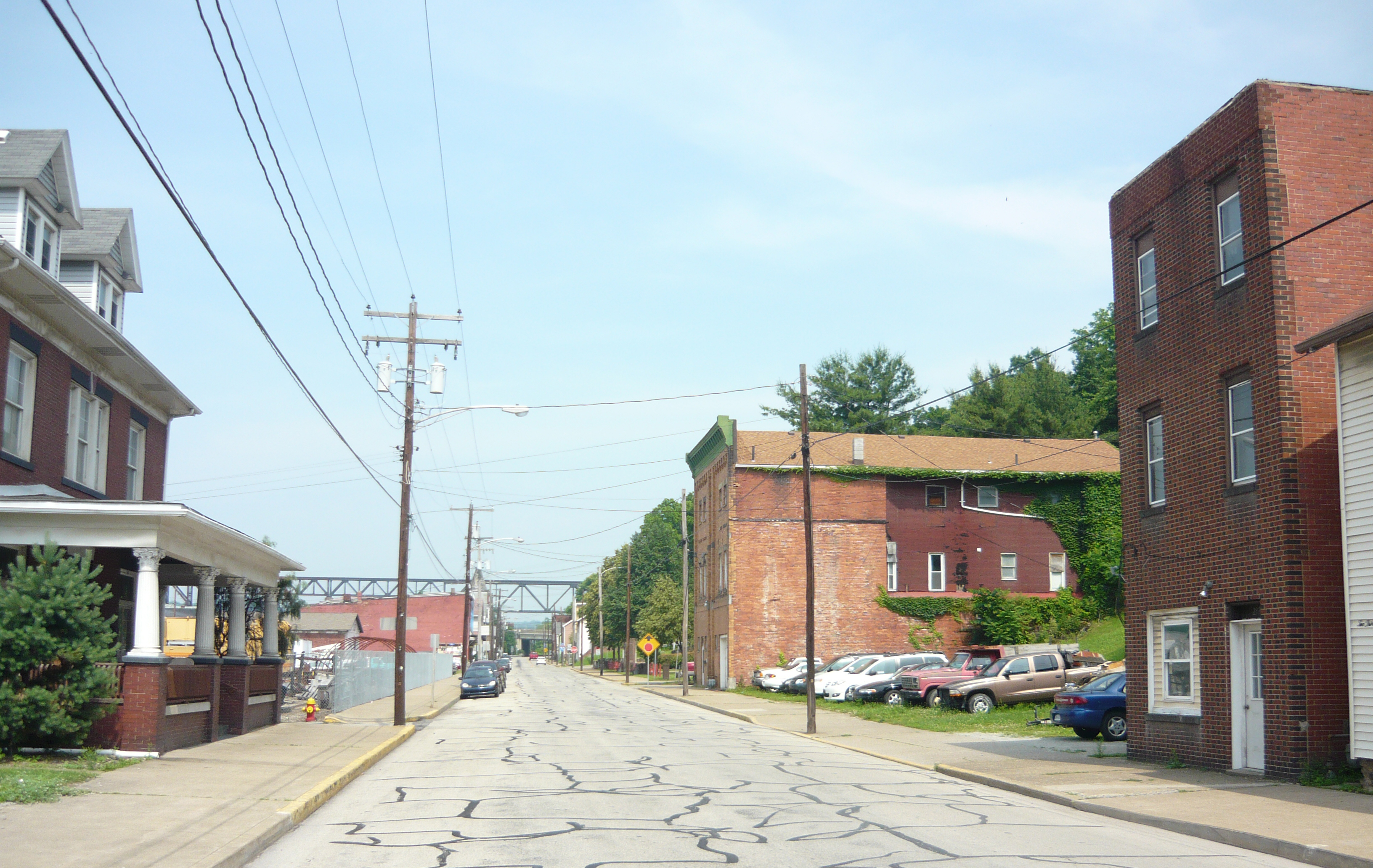 Looking northwestward on Main Street, Borough of Belle Vernon, Fayette County, Pennsylvania.